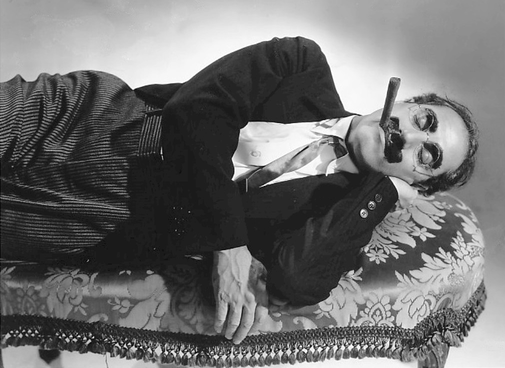 Photo of Groucho Marx from A Day at the Races.